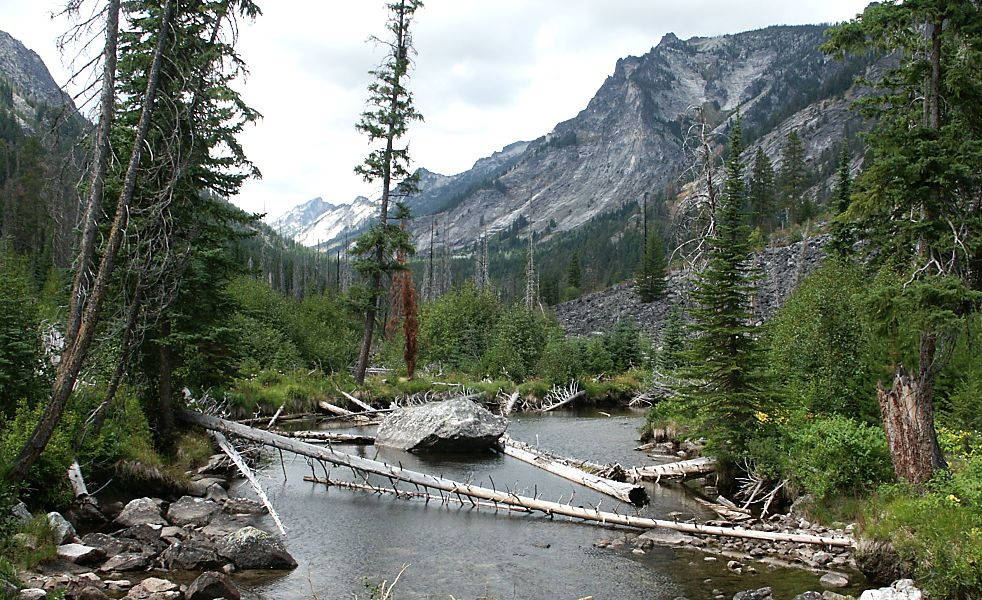 Blodgett Canyon — in the Bitterroot Mountains and Bitterroot National Forest, western Montana. Looking west from the bridge in the center of the canyon.